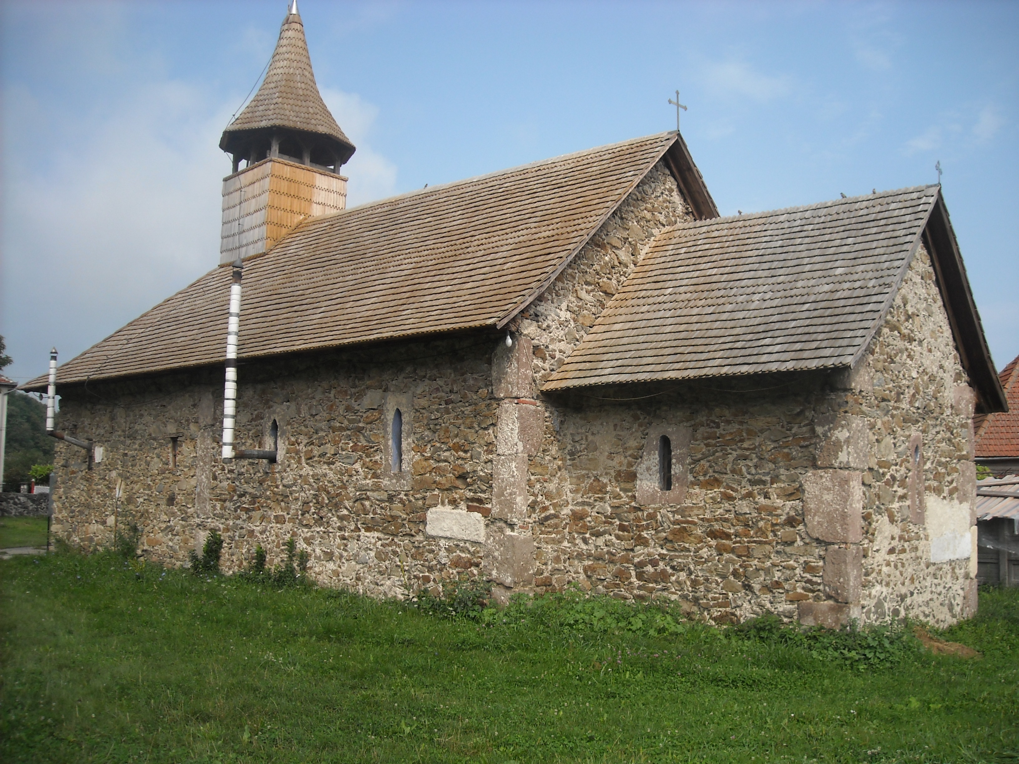 the Saint Nicholas Orthodox church (built in the 14th century) in Leşnic, Romania